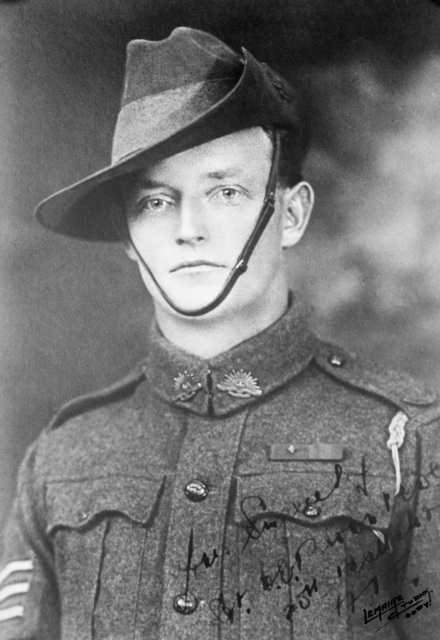 Studio portrait of Sergeant Walter Ernest Brown VC DCM, of the 20th Battalion, AIF.